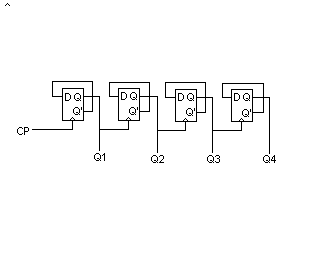 Simple BCD Counter